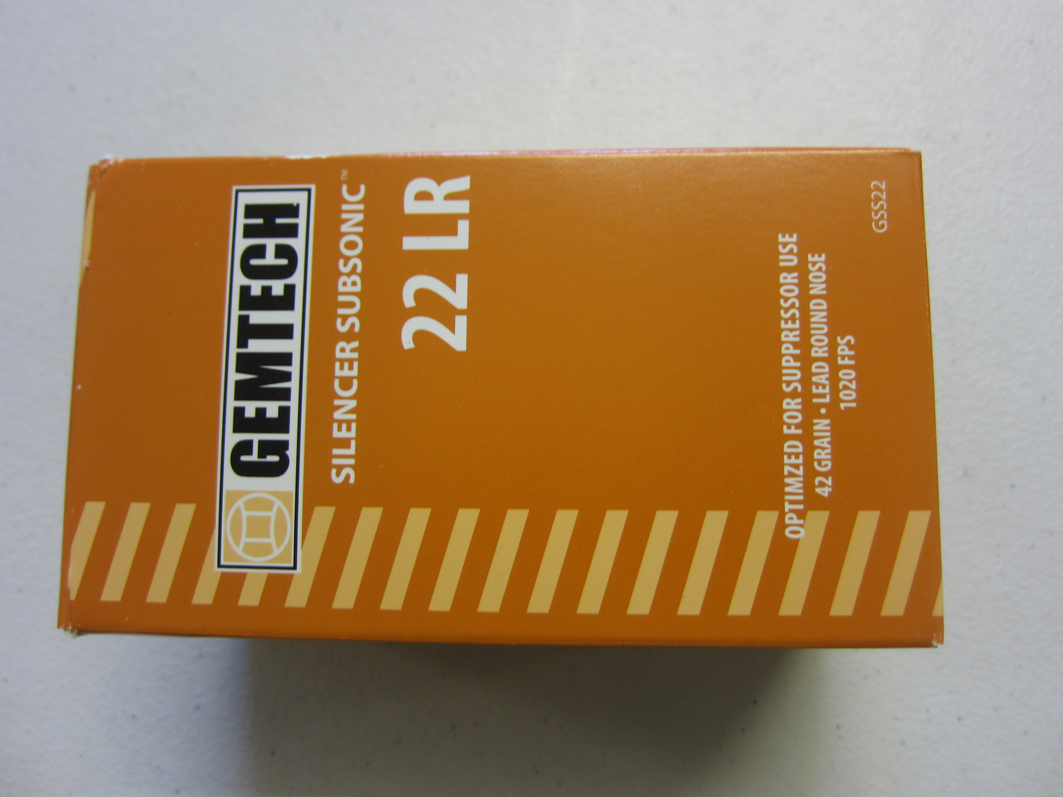 GemTech, 22LR, Subsonic Ammo